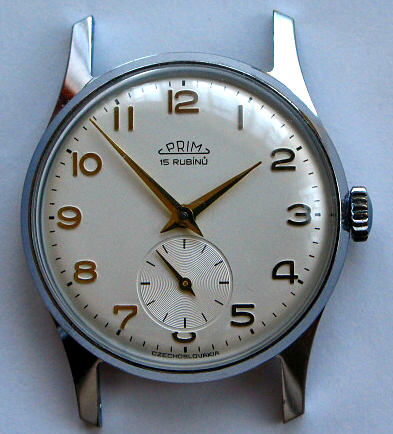 wristwatch Prim cal. 50